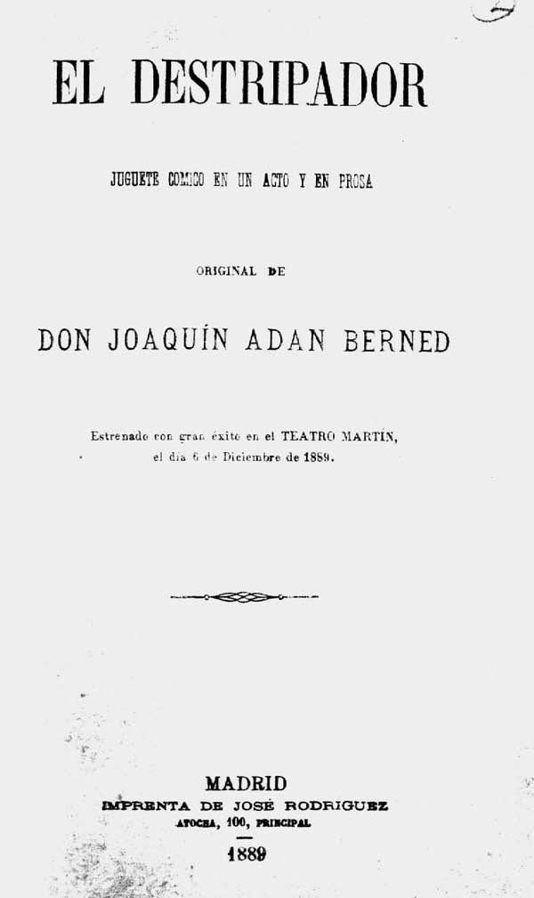 El Destripador, de José Adán